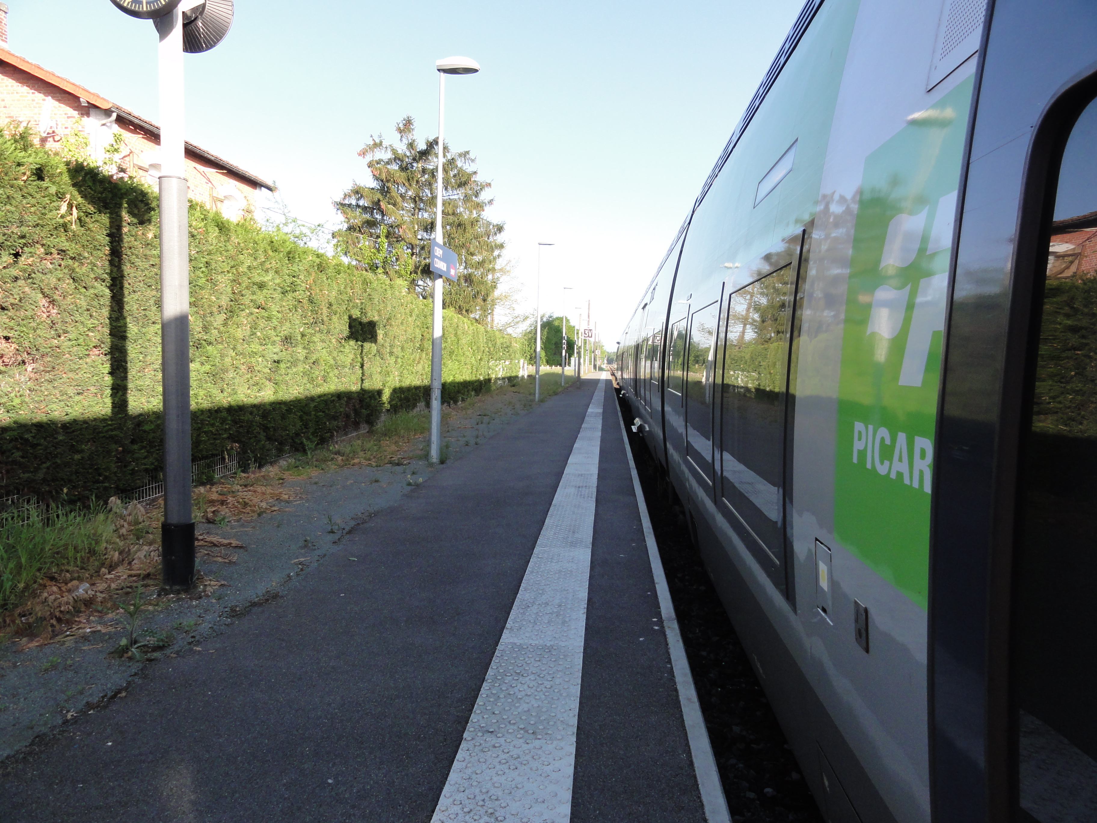 Crépy-Couvron (Aisne) la gare, avec un train TER Picardie